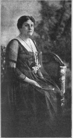 Gertrude R. (nee Hess) Elkus (1873-1953) (Mrs. Abram Isaac Elkus), wife of the Ambassador of the United States to Turkey